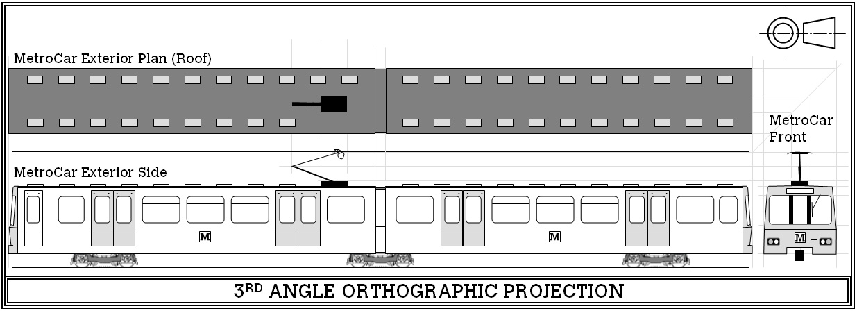 A Third Angle Orthographic Projection of a single Tyne and Wear Metro Vehicle (MetroCar for short).